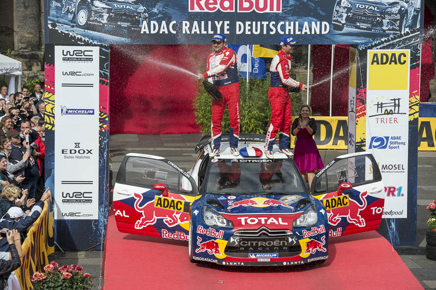 Rally Germany 2012 ADAC Rallye Deutschland,Citroen DS3 WRC,Citroen Total WRT,Citroen Total World Rally Team,Daniel Elena,Motorsport,Rally,Rallye,Rallye Deutschland,Sebastien Loeb,WRC